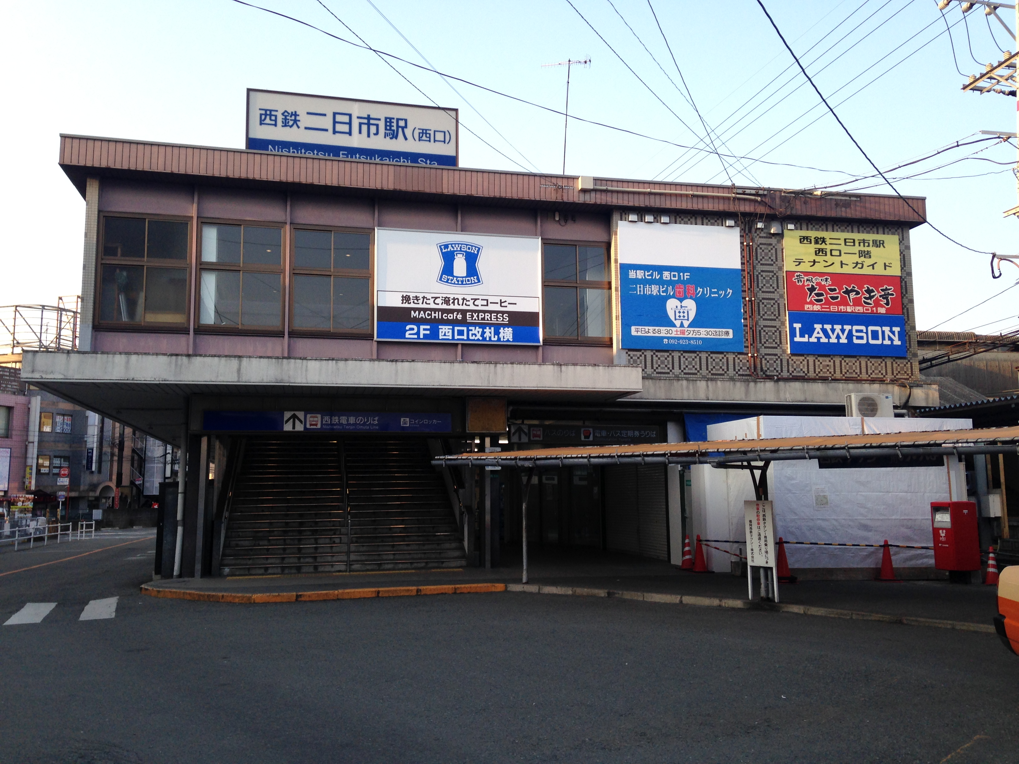 Nishitetsu-Futsukaichi Station